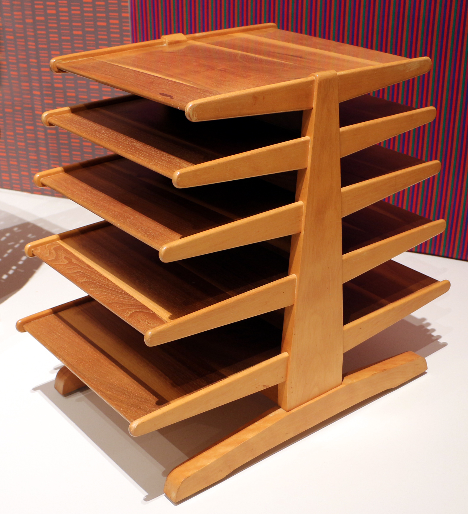 Furniture in the Milwaukee Art Museum